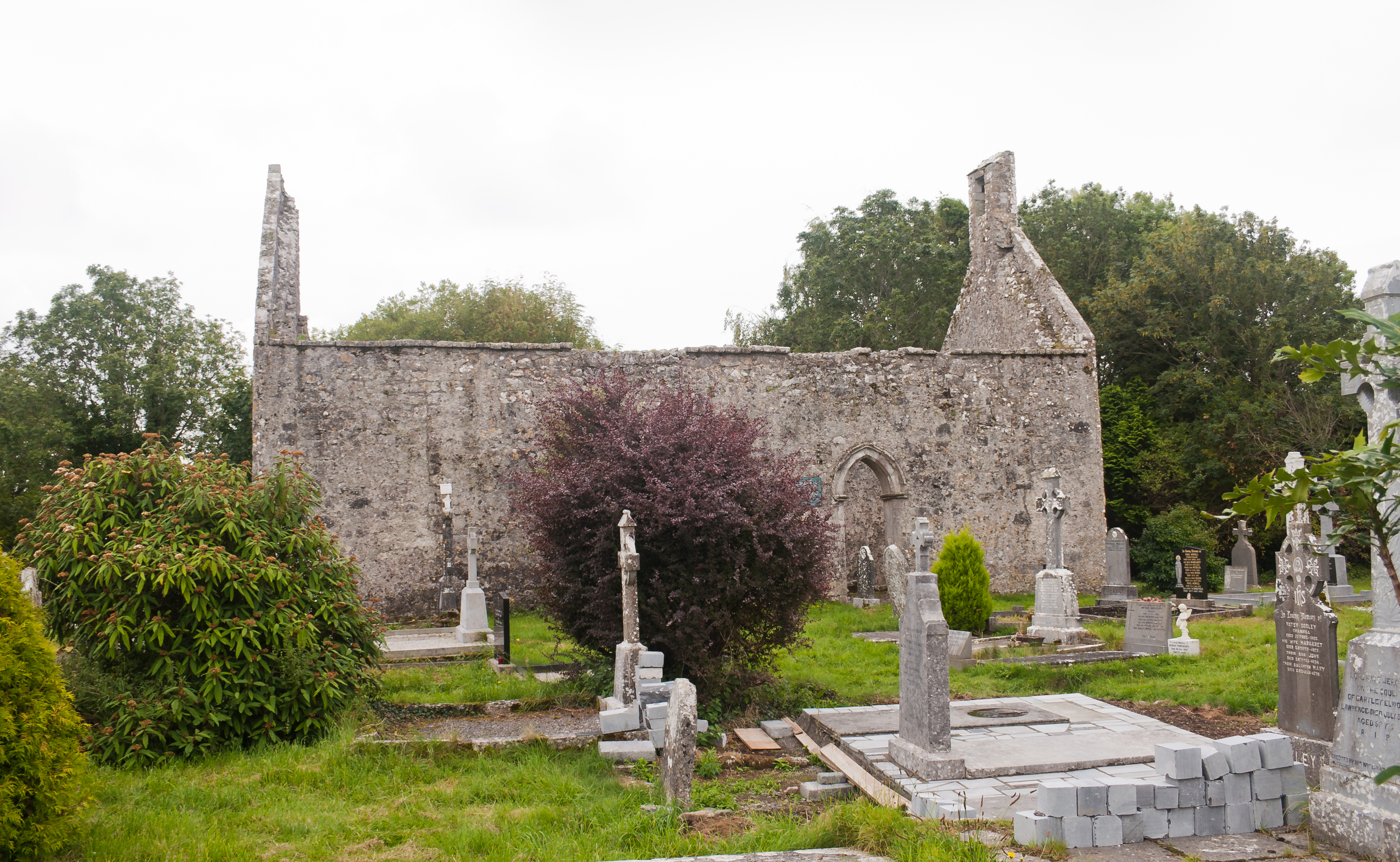 North side of Annaghdown Cathedral along with the doorway to the nave.